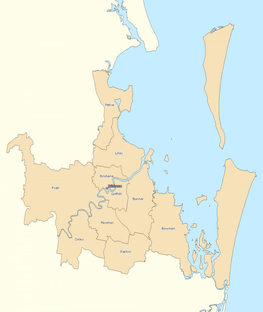 This image incorporates data that is: © Commonwealth of Australia (Australian Electoral Commission) 2009 Brisbane divisions overview 2010